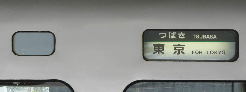 The rollsign of Shinkansen 400 (Car 426-1 from Train L1, the first mass production of 400 series) (Taken at Shinjō Station)